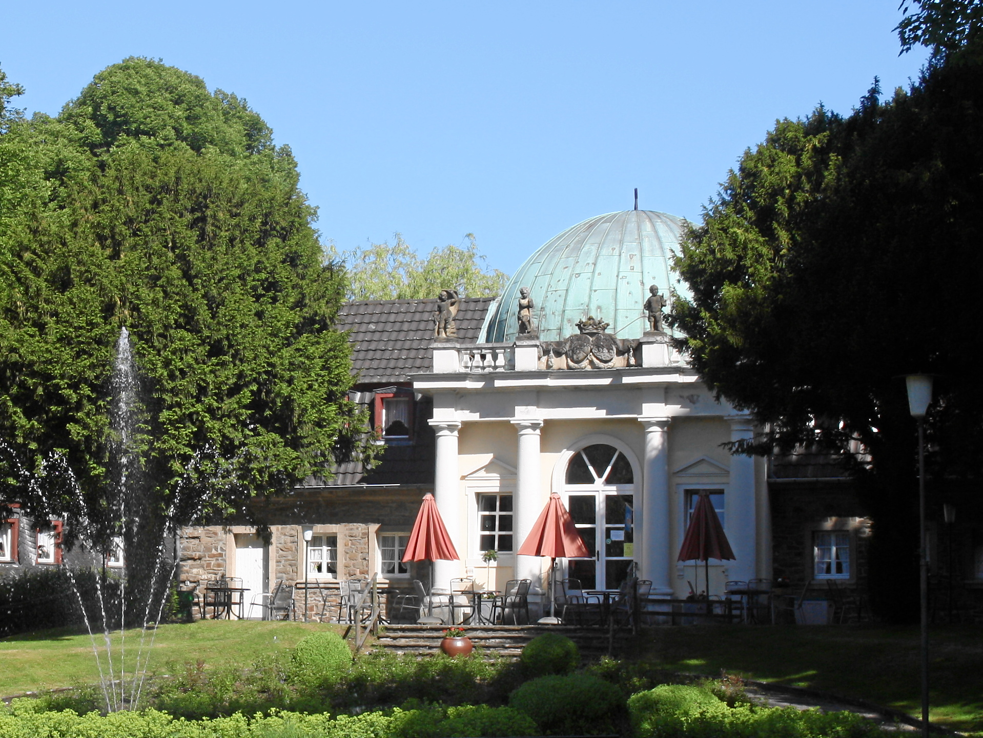 Eitorf-Merten, Germany. Castle Merten, Orangerie (1930).